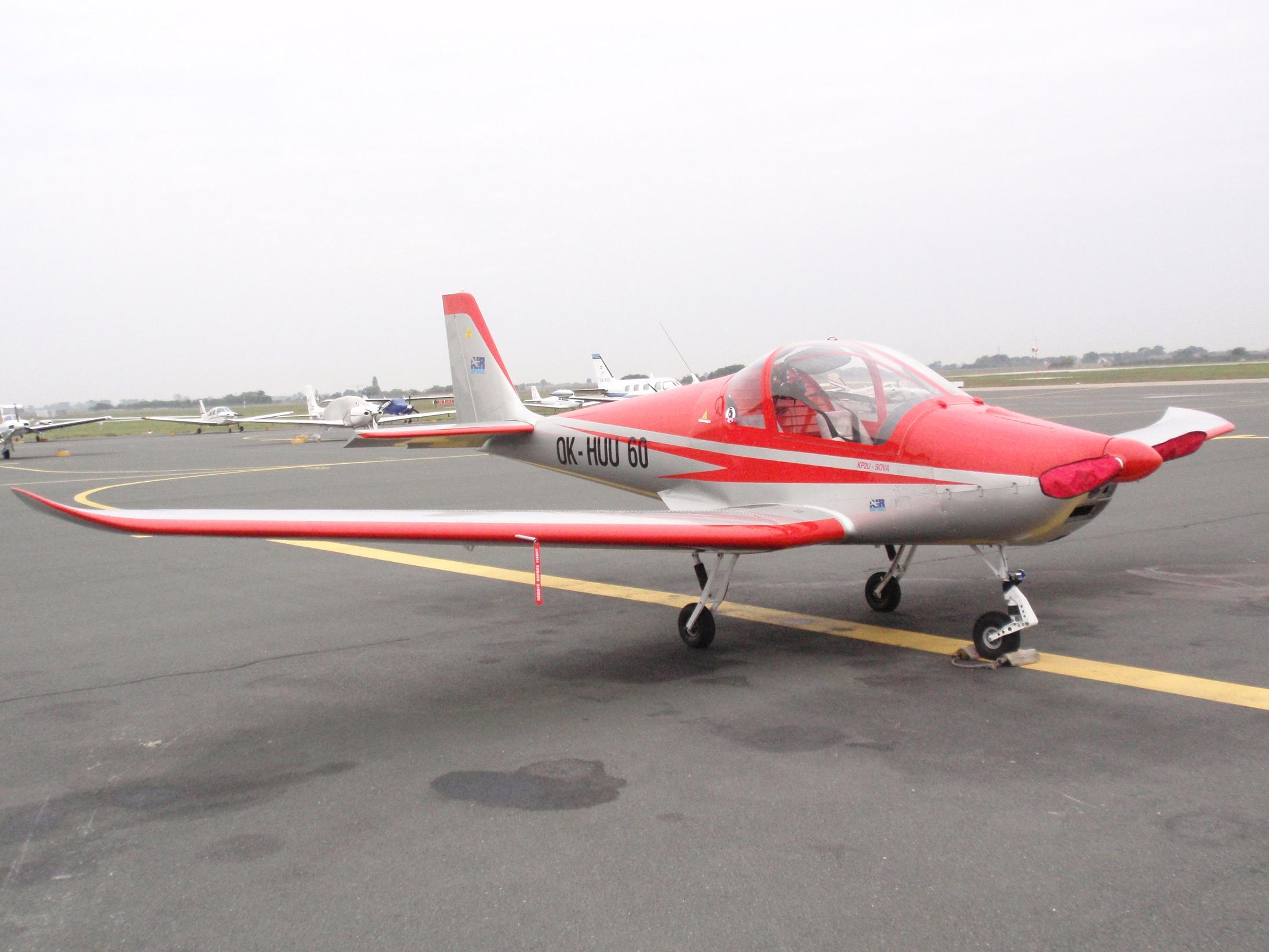 KP2U SOVA OK-HUU 60